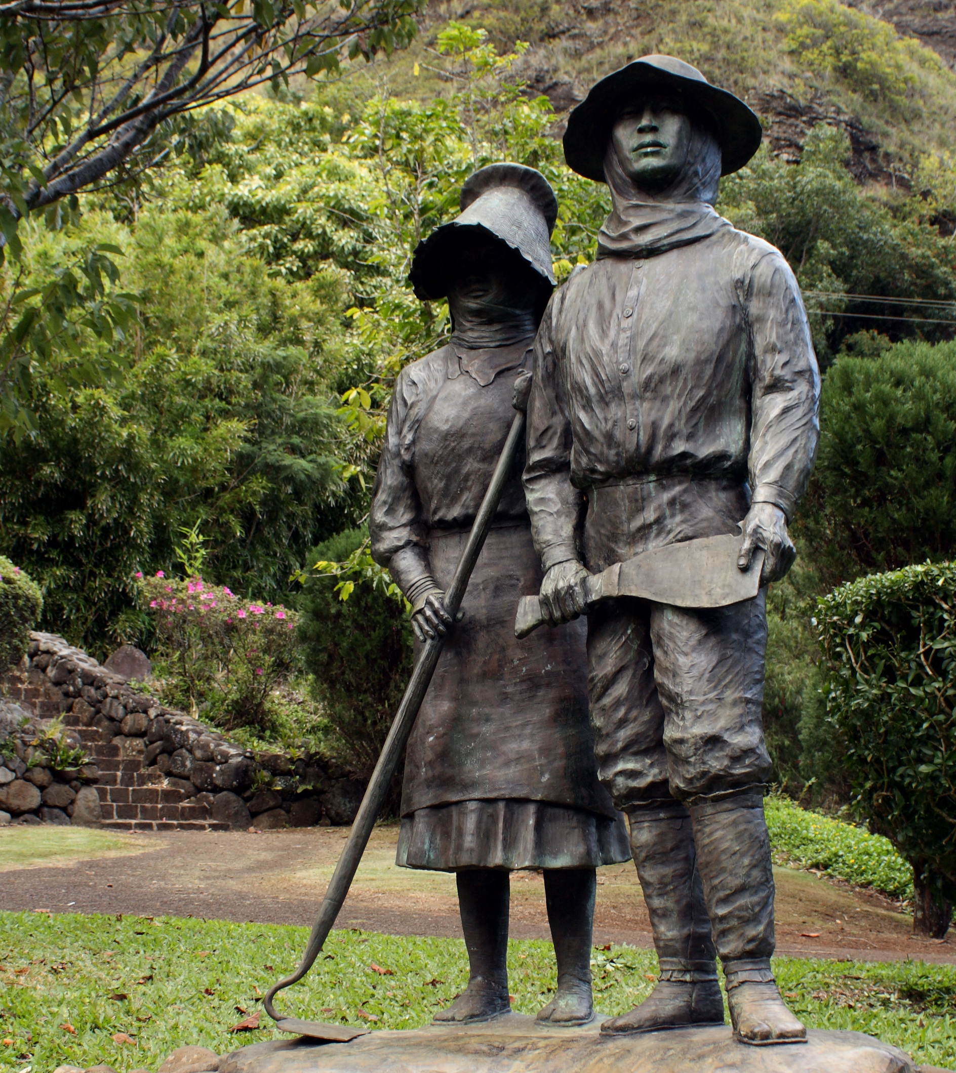 Bronze statue of Japanese sugarcane workers erected in 1985 on the centennial anniversary of the first Japanese immigration to Hawaii in 1885. Japanese Pavilion, Kepaniwai Heritage Gardens, Iao Valley State Monument, Maui, Hawaii.